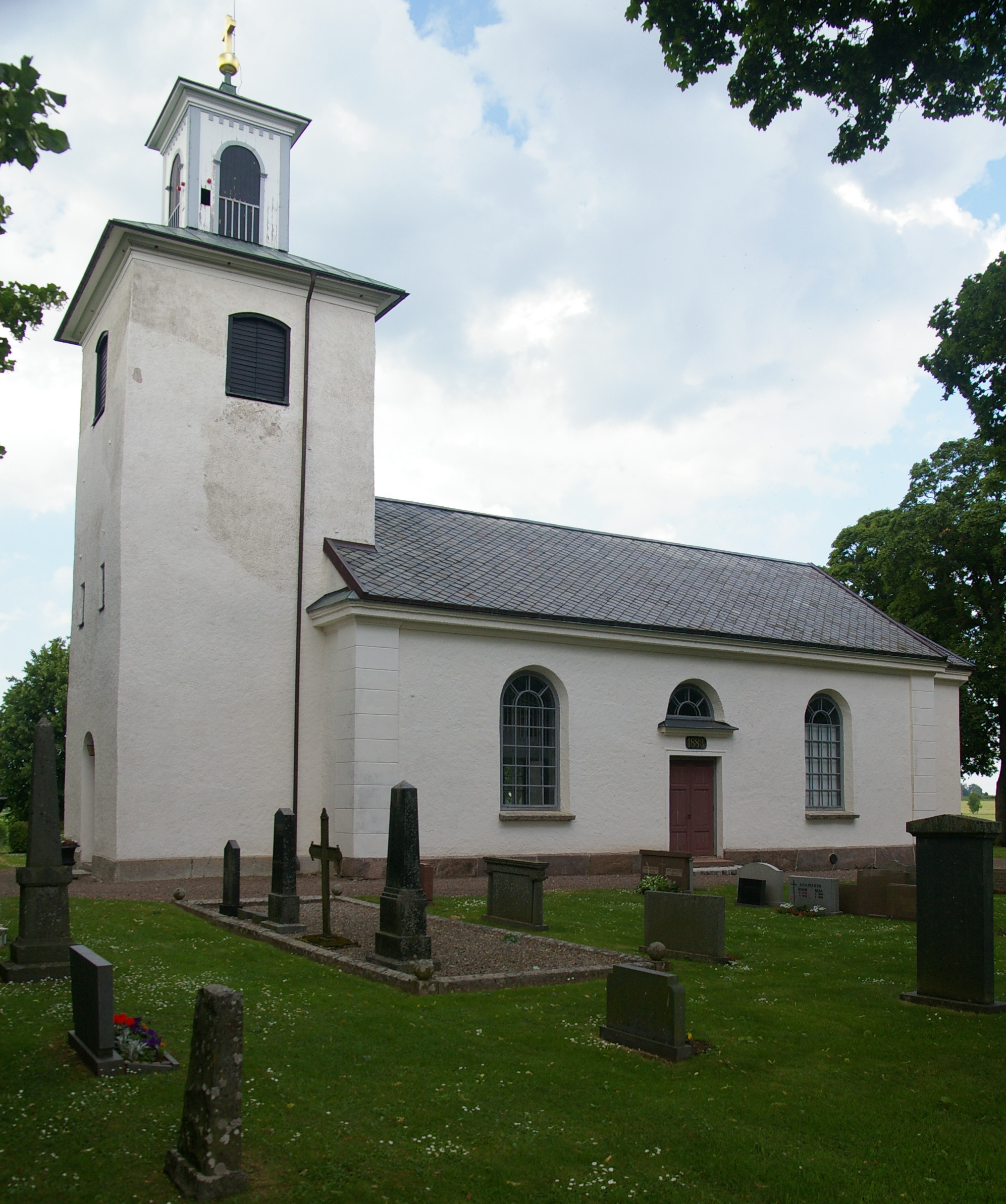 Näs kyrka (Swedish:Church of Näs) in Västergötland, Sweden